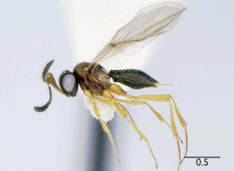 Orwellium enigmaticum, lateral view.